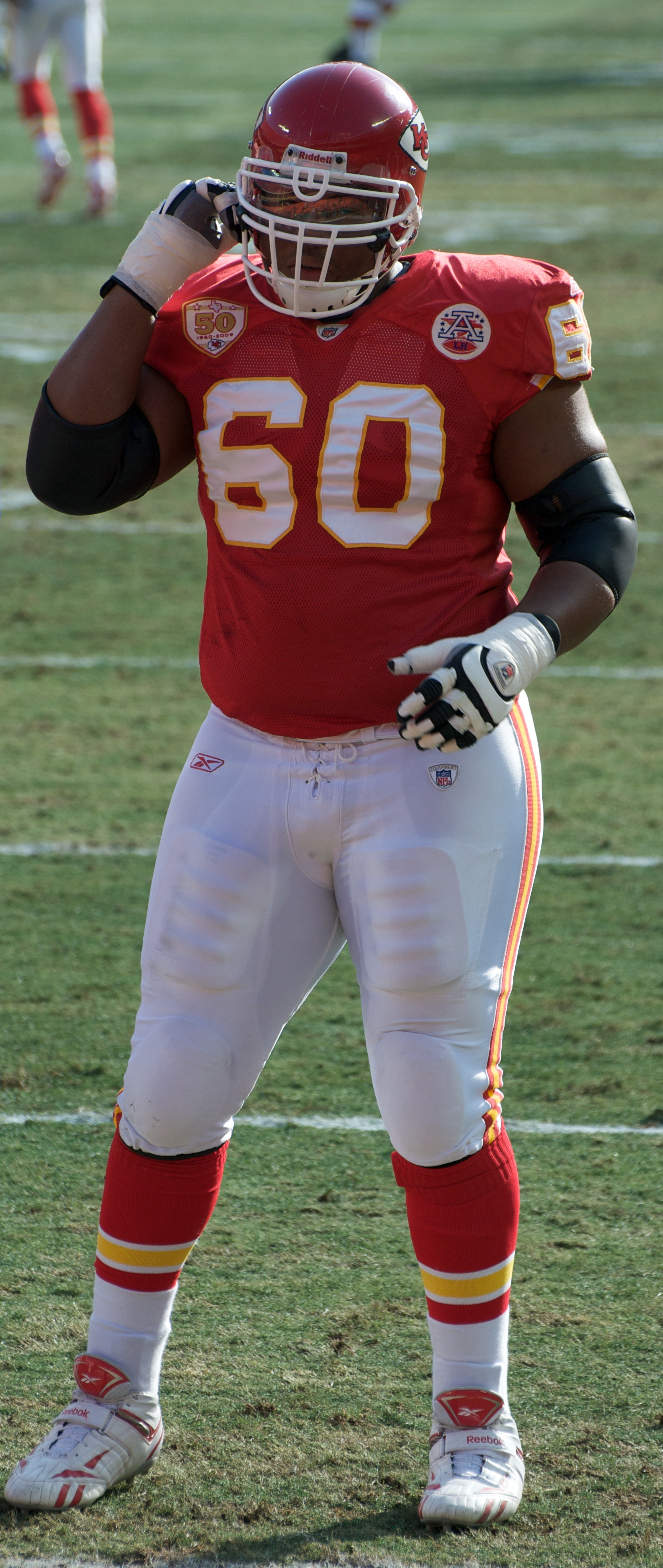 Ikechuku Ndukwe, pregame warmups 12-20-2009